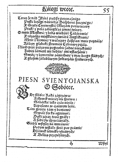 A page of Pieśni Jana Kochanowskiego księgi dwoje with beginning Pieśń świętojańska o Sobótce (1586).